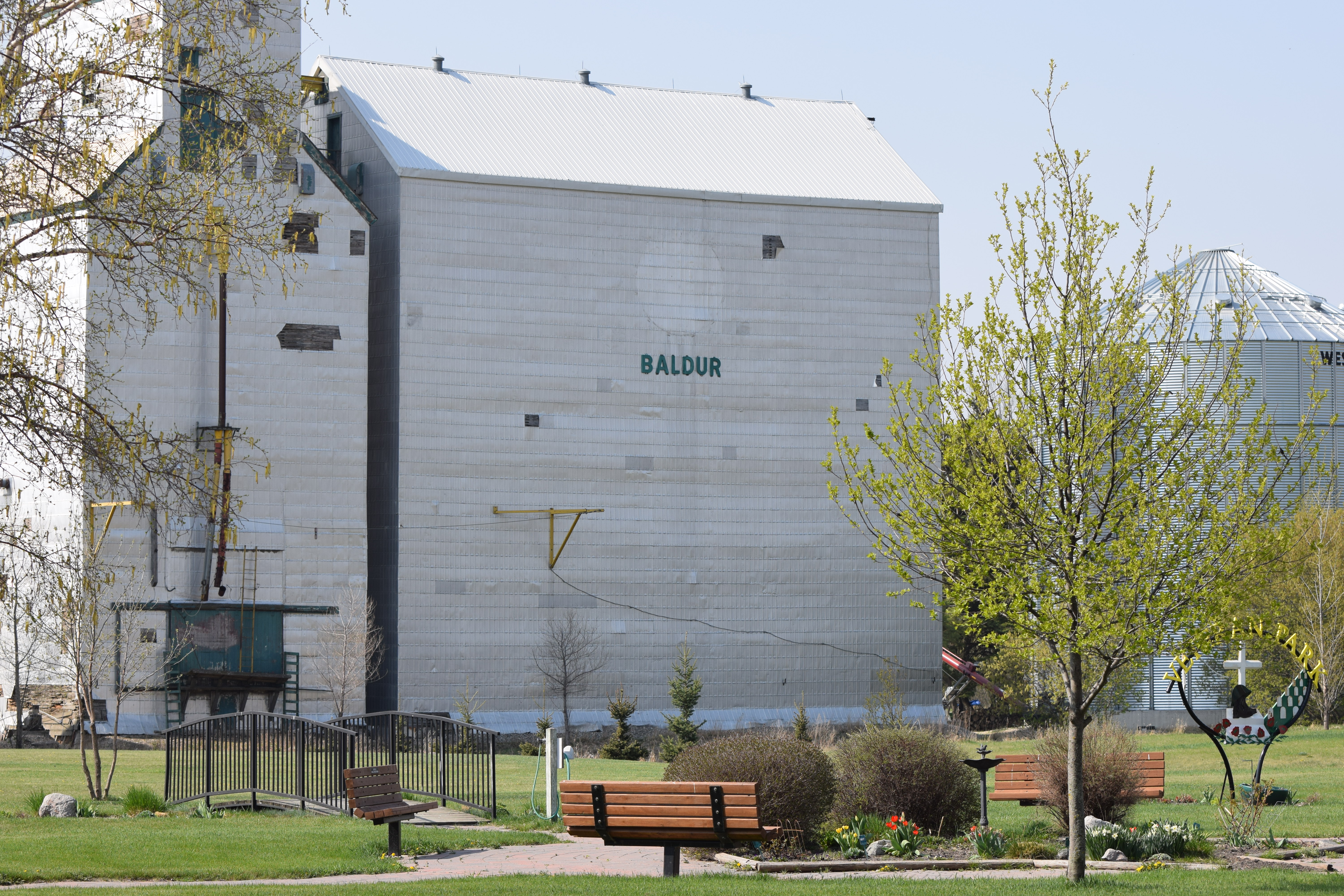 A view of the grain elevator and park in Baldur, Manitoba.